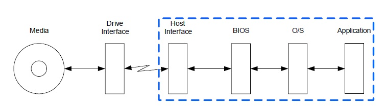 Advance Format 512-byte based code